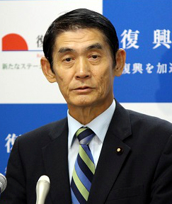 Masahiro Imamura, Minister for Reconstruction, attended the press conference at the Central Government Building No.4 in Chiyoda Ward, Tōkyō Metropolis on August 3, 2016.